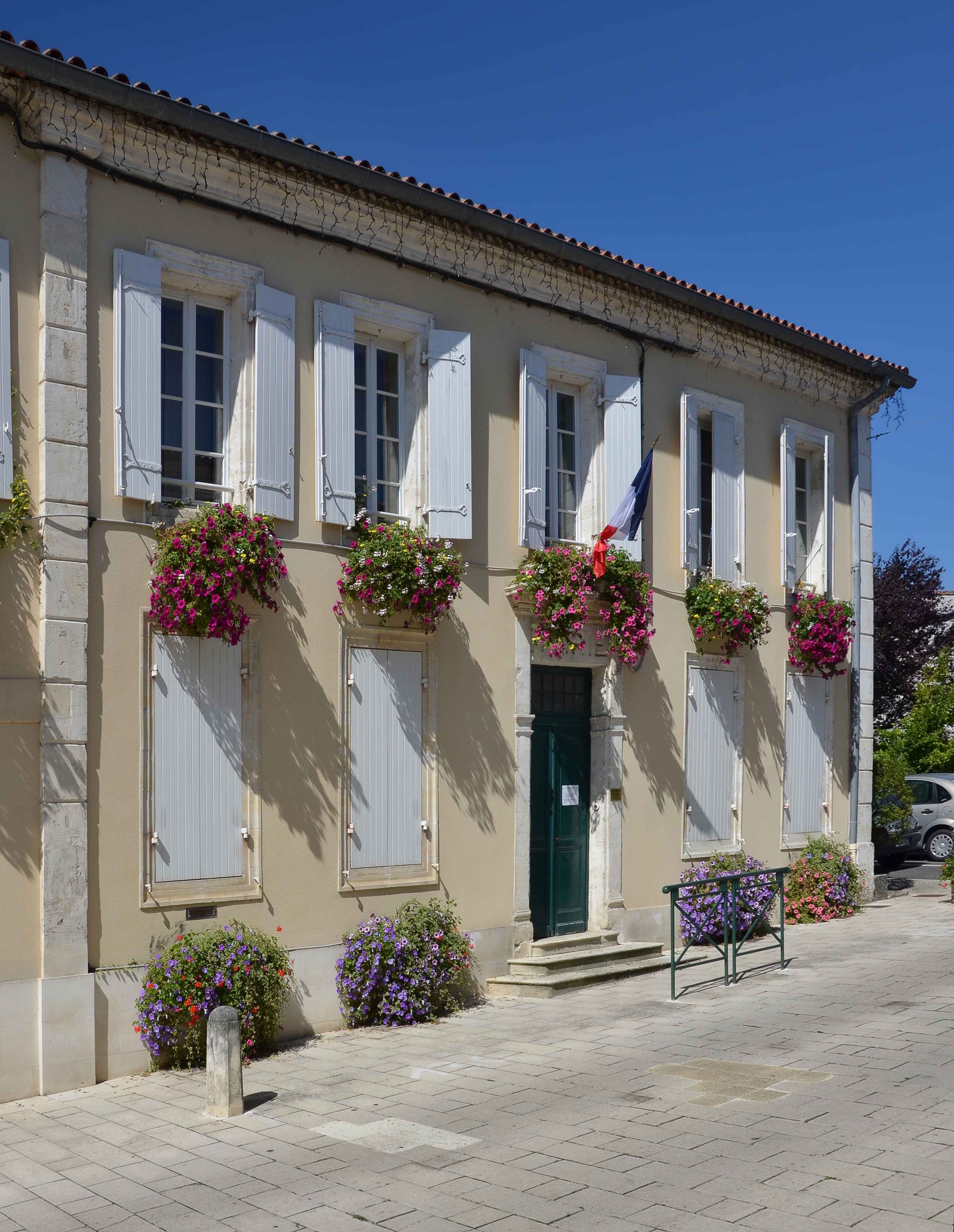 Town hall (with mourning flag),Baignes-Sainte-Radegonde, Charente, France.